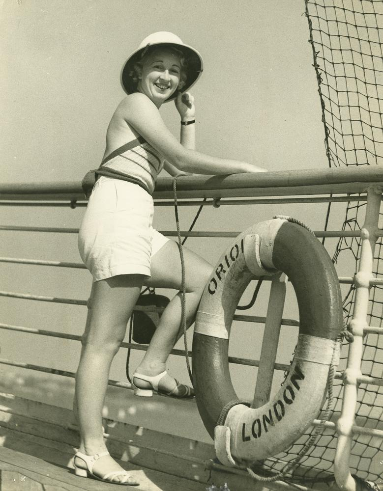 Enjoying the sunshine on the deck of the cruise ship Orion, Brisbane Miss M. Carne is dressed in shorts, halter top, pith helmet and sandals, enjoying the view from the deck. She is standing beside a lifebuoy with the identifying name of Orion, London, printed on it.